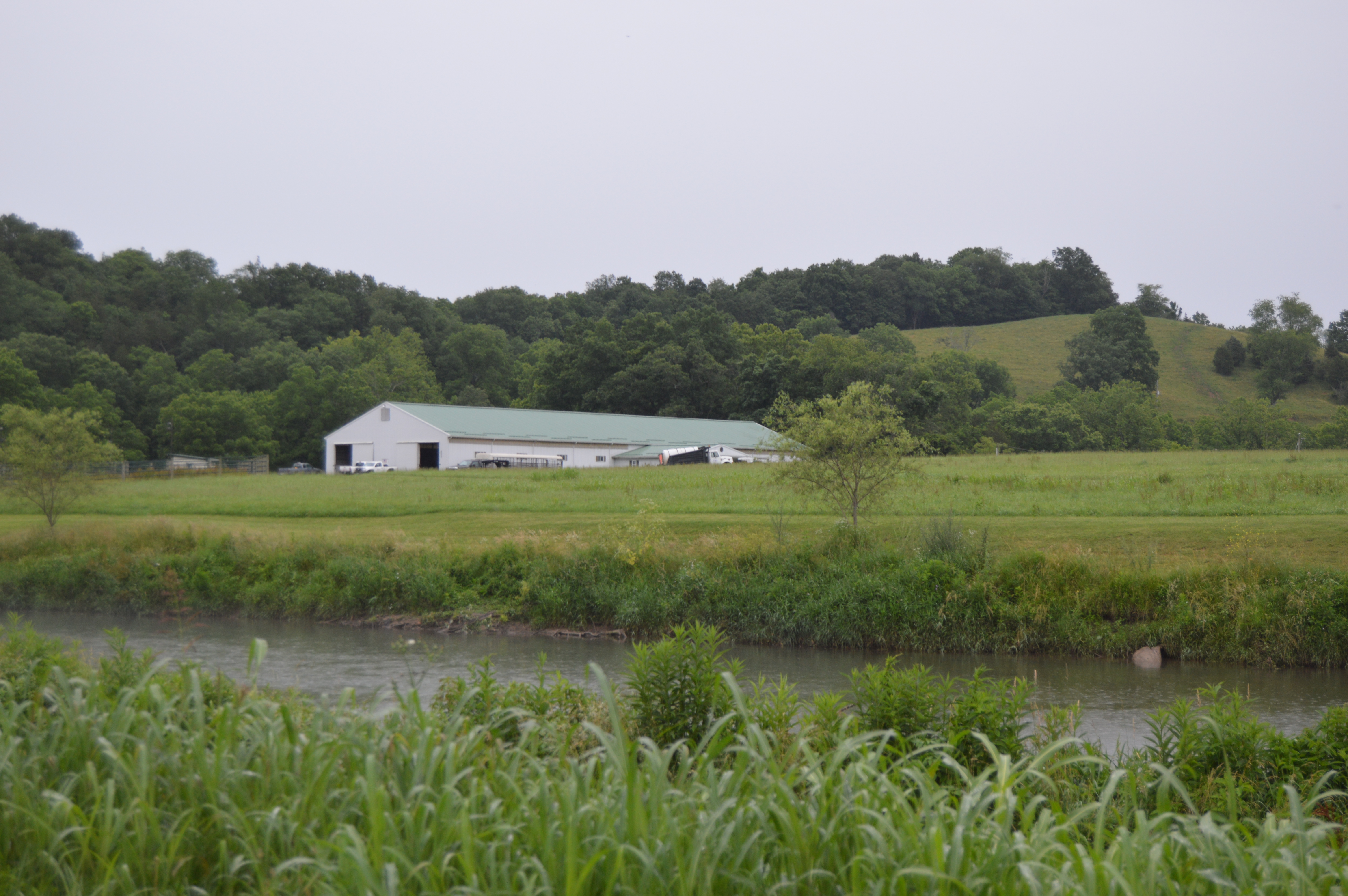 Overview of the Fox Farm Site from Fox Valley Road, located in a bend of the Holston River northeast of Seven Mile Ford in Smyth County, Virginia, United States. An important Woodland period site, it is listed on the National Register of Historic Places.